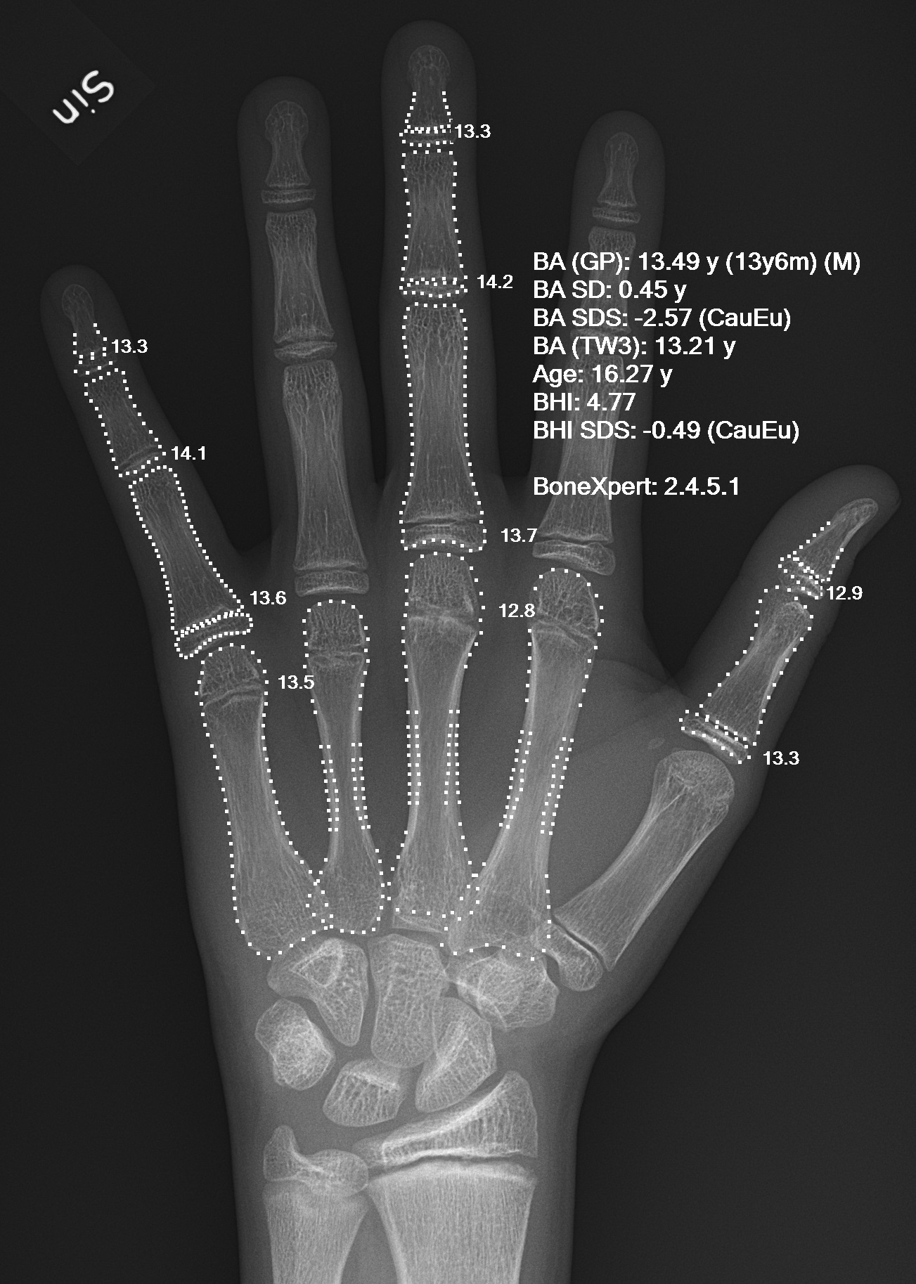 X-ray of the hand of a 16.27 year old male, with automatic calculation of bone age by BoneXpert, taken because of delayed puberty. The bone age is 13.49 by the Greulich and Pyle algorithm, and 13.21 by the third Tanner Whitehouse algorithm. From this, a final height of 188.3±3.6 cm could be estimated.